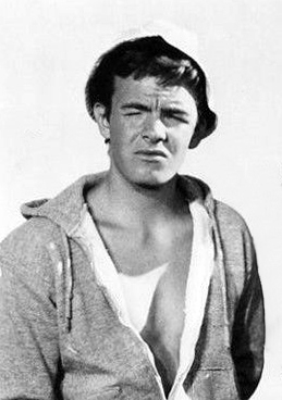 Publicity photo of Roger Mobley, Robert Sorrells, and James Daly for The Wonderful World of Disney episode Treasure of San Bosco Reef.